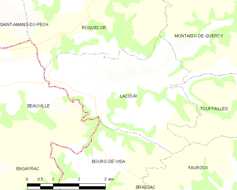 Map of French municipality Lacour